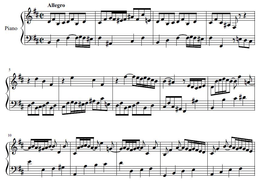 first couple lines of prelude